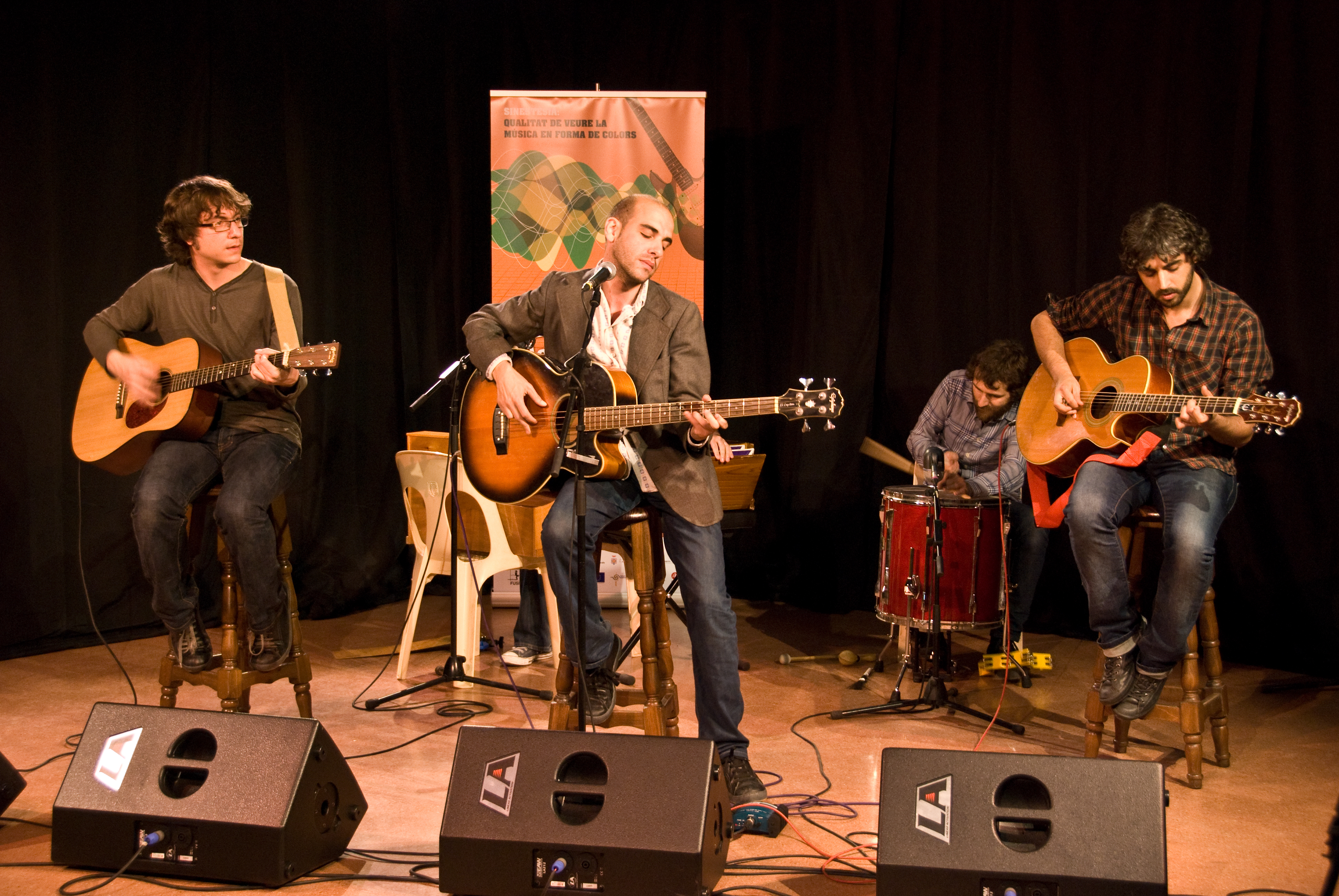 Arthur Caravan live on FiM TV (11th Fira de Música al Carrer de Vila-seca) sound stage